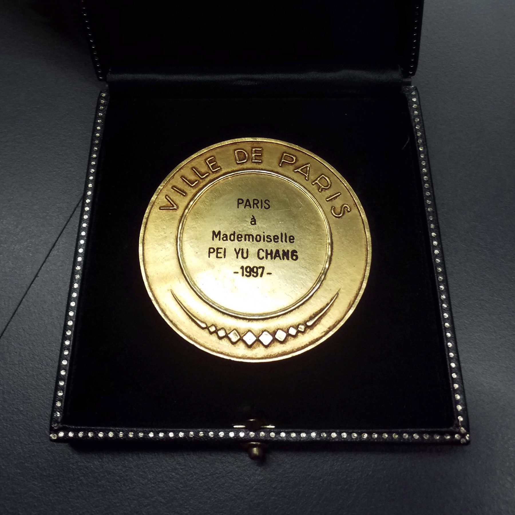 Médaille de la Ville de Paris - Pei-Yu Chang 1997